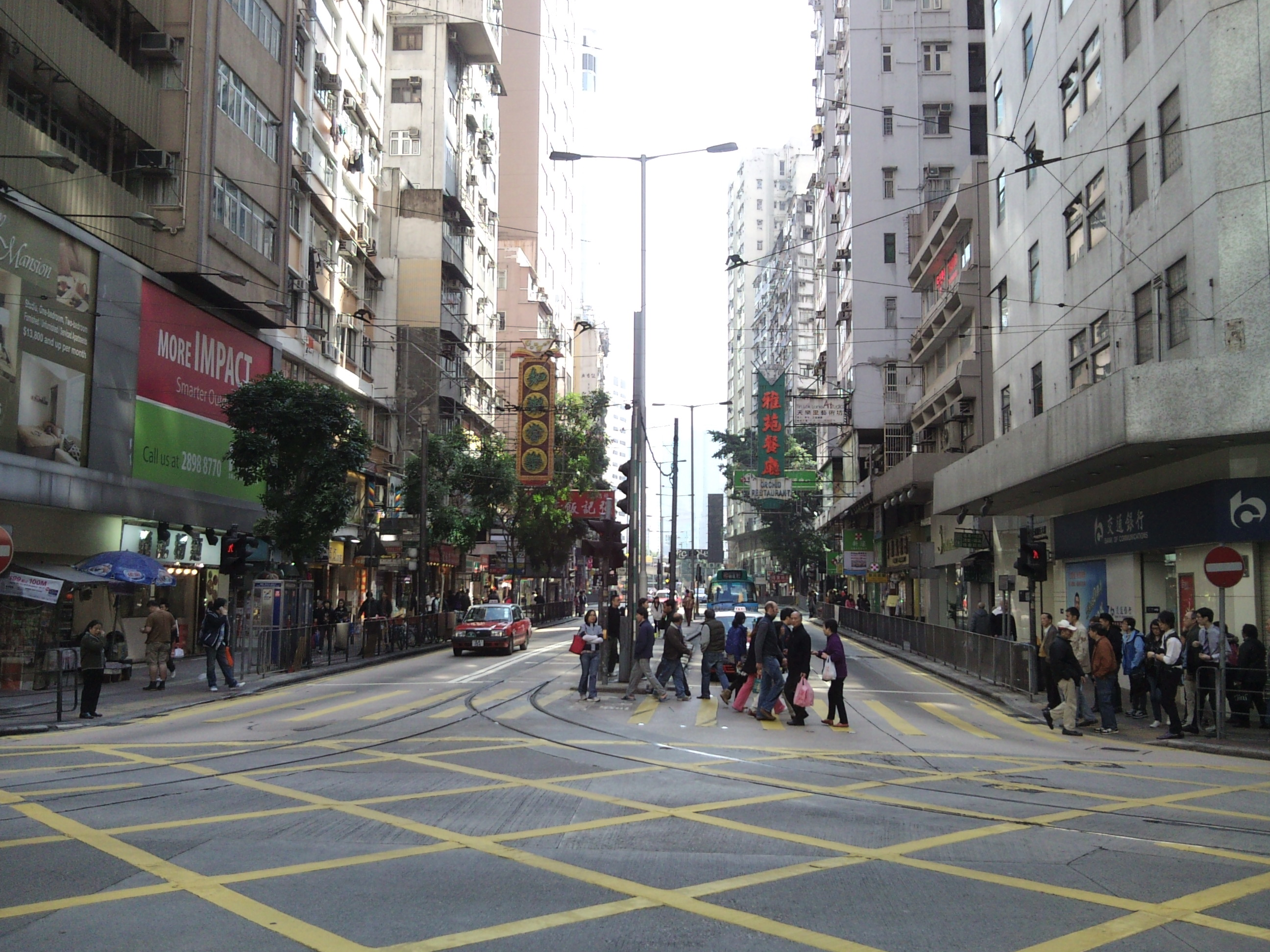 Tin Lok Lane near Hennessy Road